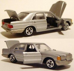 Description Mercedes-Benz W126 DateUnknown dateSourceOwn workAuthorJan CleveringOther versions File:WRM Mercedes Benz - Daimler.jpg Mercedes-Benz W126